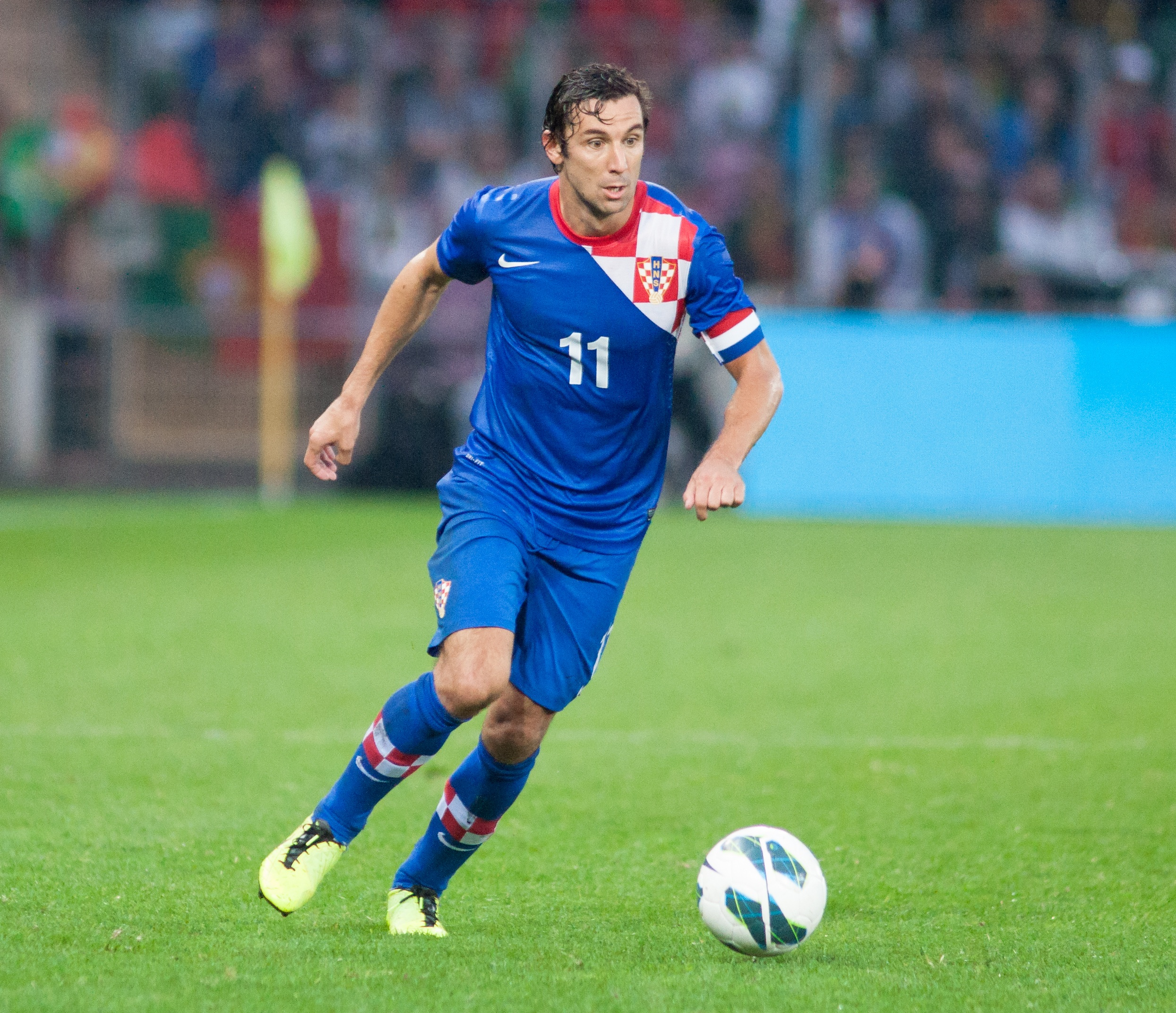 Darijo Srna - Croatia vs. Portugal, 10th June 2013